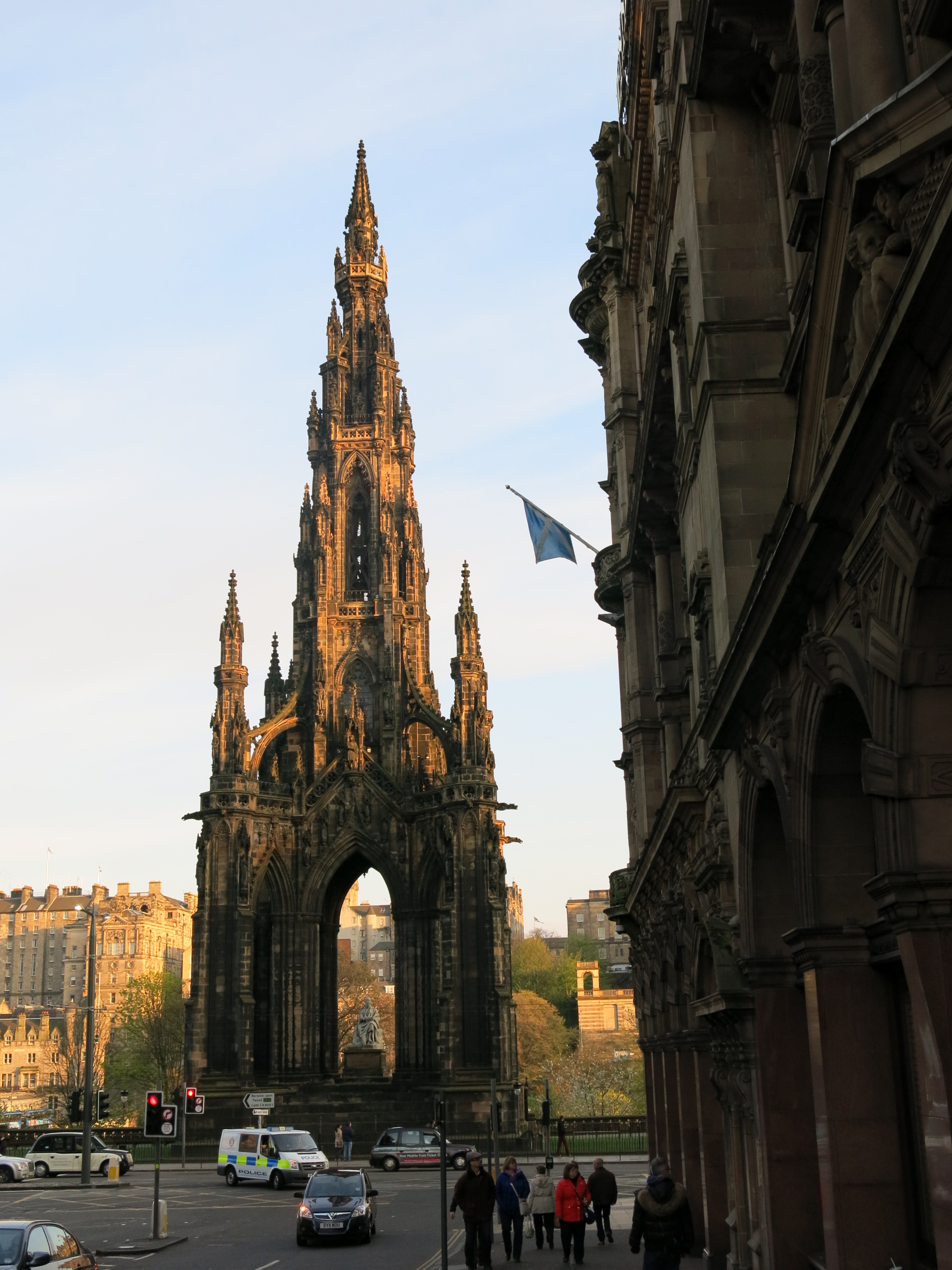 Edinburgh, Scott Monument.